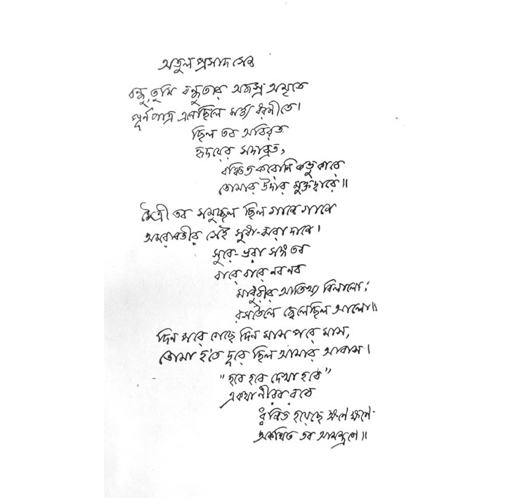 Atul Prasad remembered by Tagore